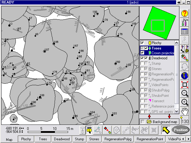 visualisation of forest structure (by Field-Map[1] technology).